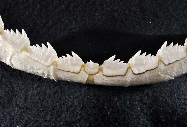 Notorynchus cepedianus